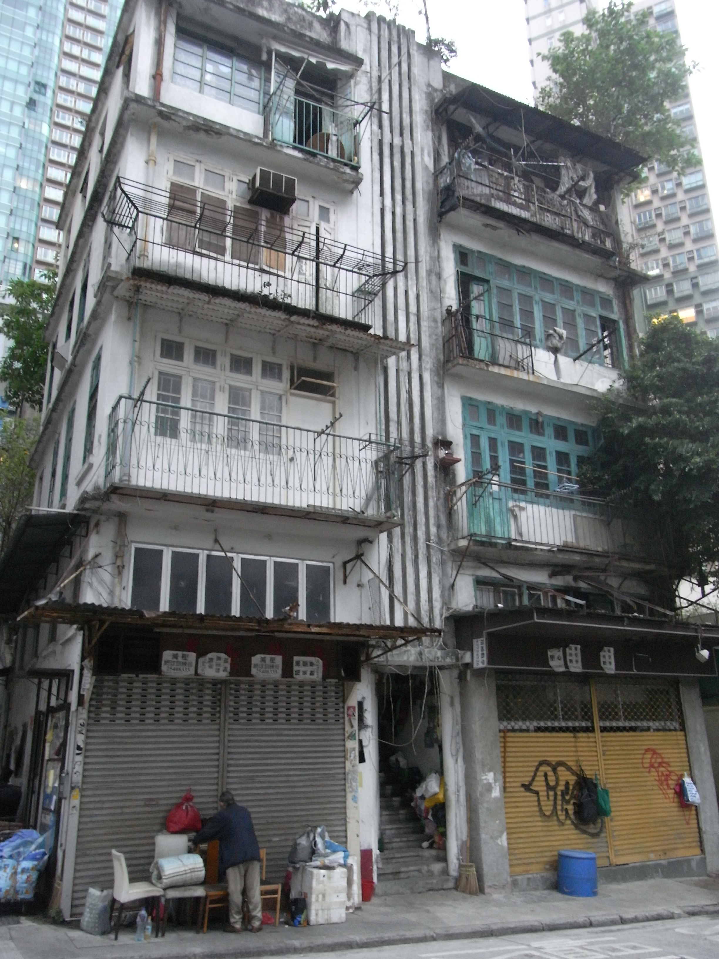 香港島 士丹頓街